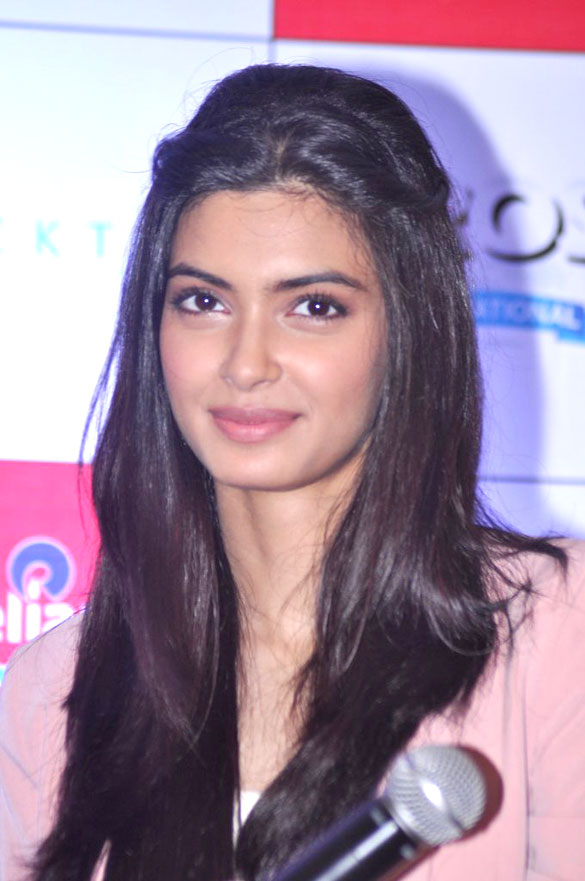 Diana Penty promotes 'Cocktail'